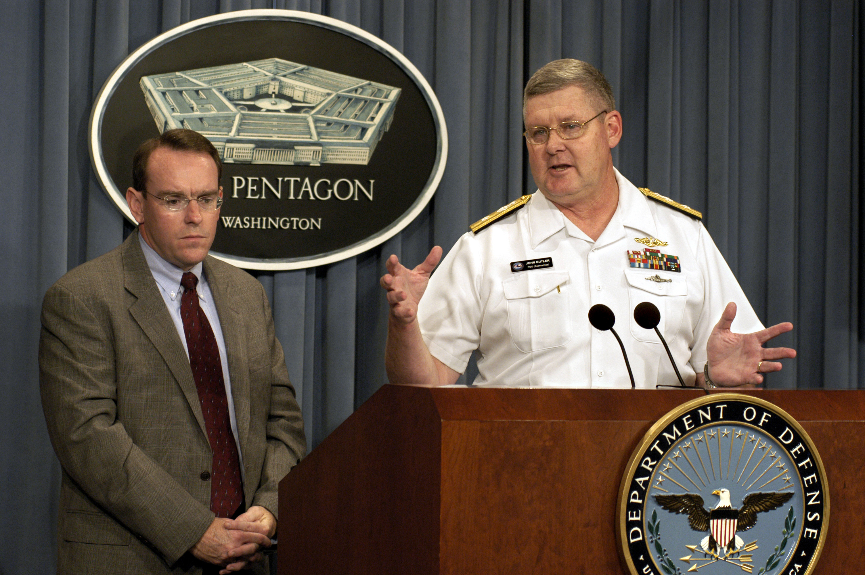 Alexandria, Va. (Aug. 14, 2003) -- Rear Adm. John Butler responds to a technical question from a reporter during a Pentagon press briefing on the details of a newly signed contract to acquire six Virginia Class submarines. Butler and Assistant Secretary of the Navy for Research, Development, and Acquisition John J. Young Jr. (left) briefed reporters on the groundbreaking contract signed with General Dynamics Electric Boat Corp., in partnership with Northrop Grumman’s Newport News Shipbuilding. Upon Congressional authorization and appropriation, the contract, valued at up to $8.7 billion, will award one submarine per year from 2003 through 2006 and two submarines in 2007. Butler is the submarine program executive officer. Department of Defense photo by R. D. Ward. (RELEASED)